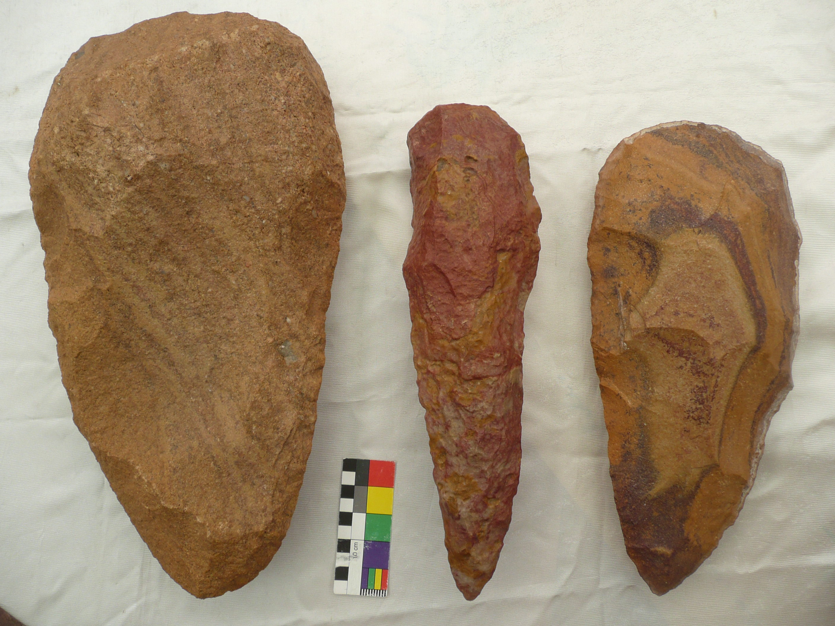 Stone hand axe from the Murzuk Desert near the erg Tamiset sand dunes (N25.25/E10.52). Murzuk, Fezzan region, Libya.